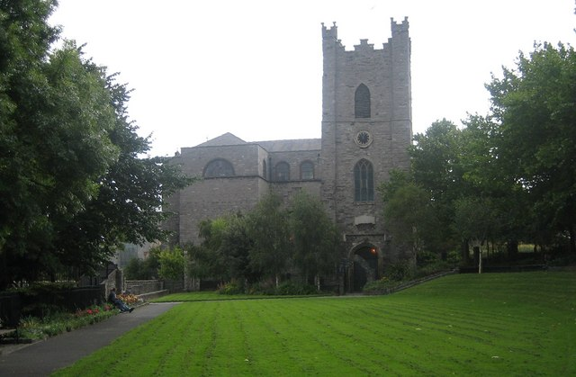 St Audeon's Church Sited in the heart of the walled medieval city, St. Audoen's Church of Ireland (Anglican) is the only remaining medieval parish church in Dublin. It is dedicated to St. Ouen the 7th century bishop of Rouen and patron saint of Normandy.